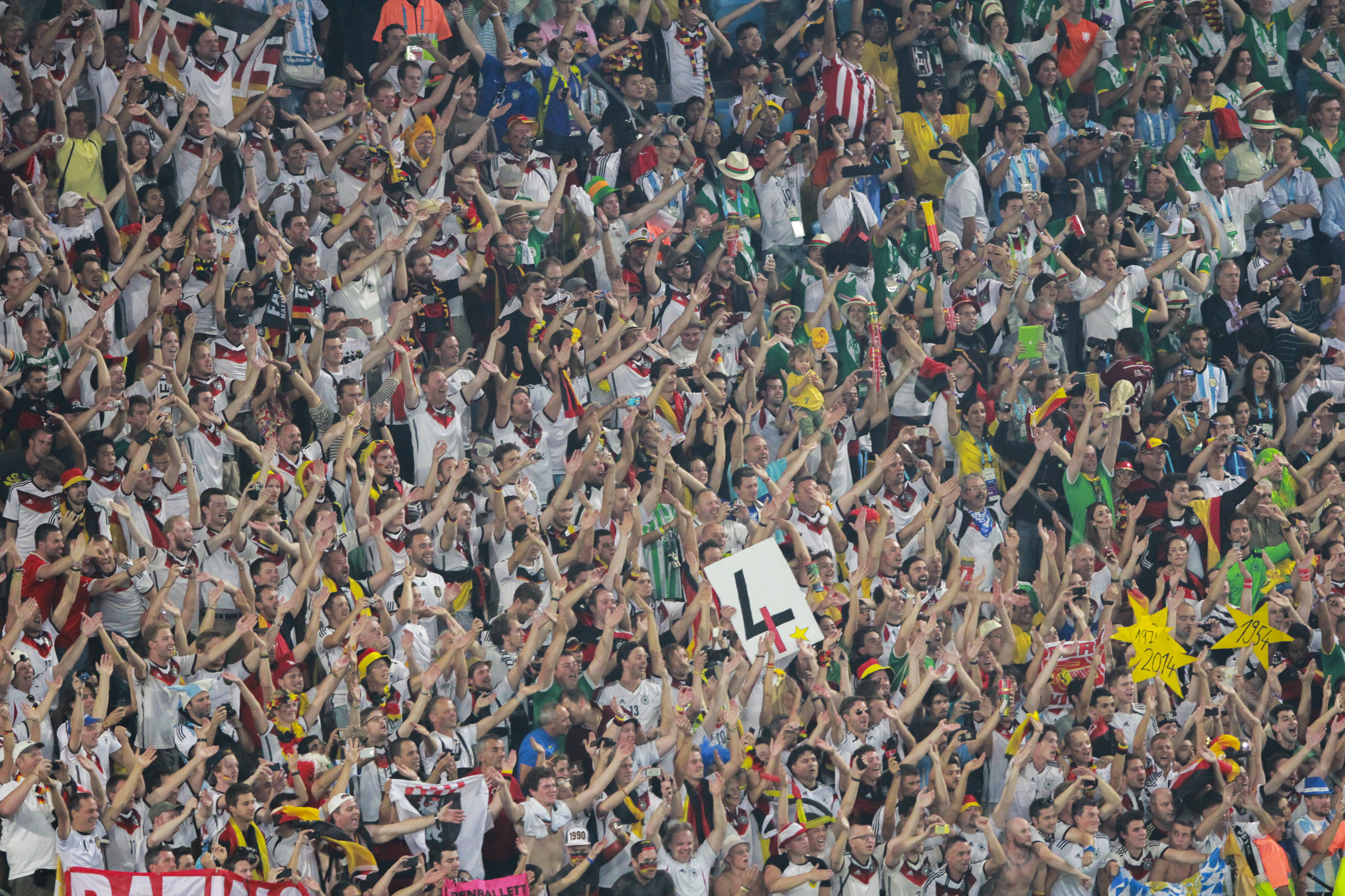 The final match of World Cup 2014 between Germany and Argentina 2014-07-13